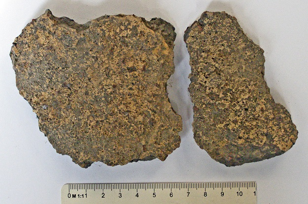 Kartena hillfort, Kretinga district, LithuaniaLietuvių: Kartenos piliakalnis, Kretingos rajonas, Lietuva